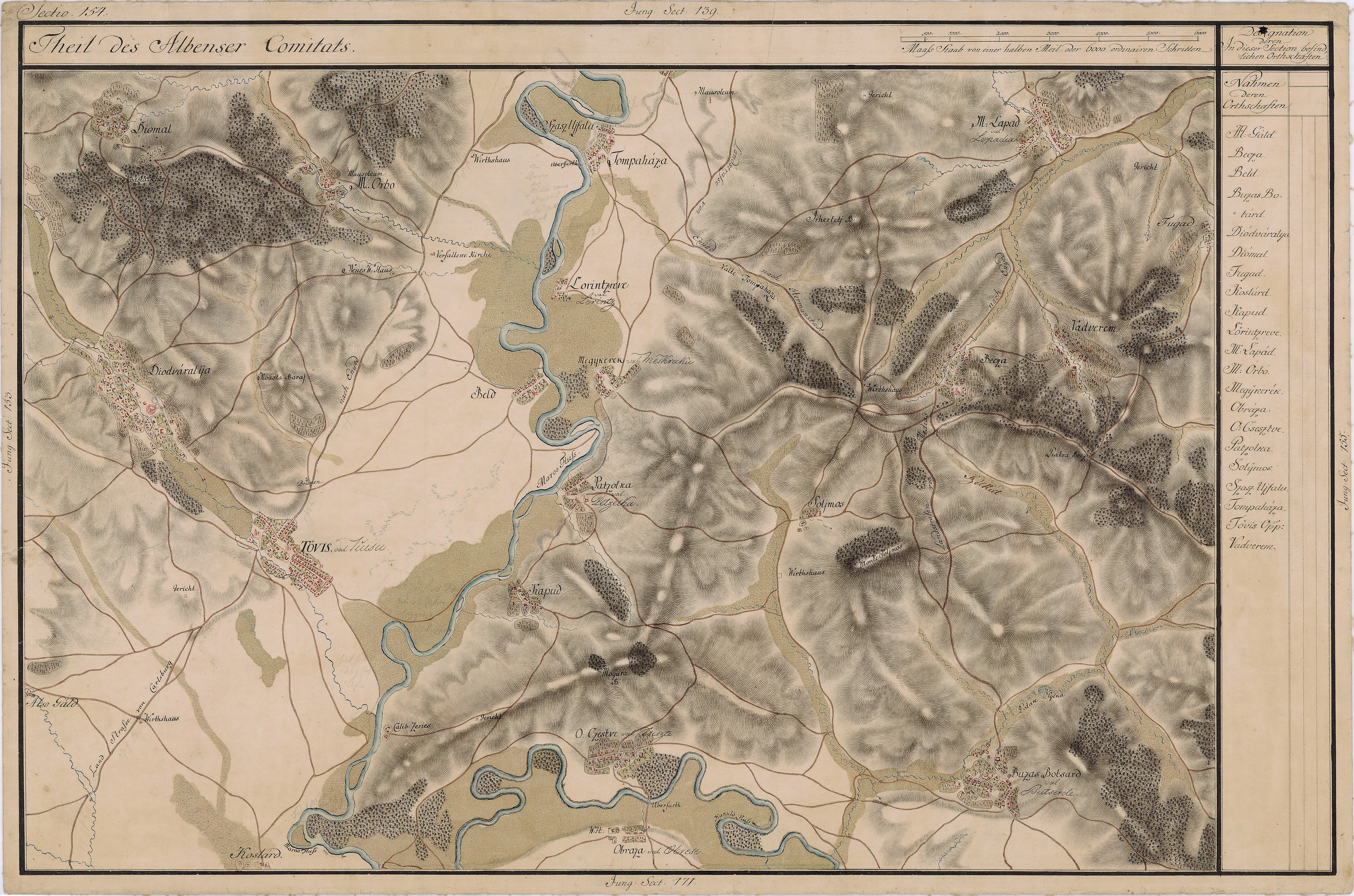 Grand Duchy of Transylvania, 1769-1773. Josephinische Landaufnahme pg.154